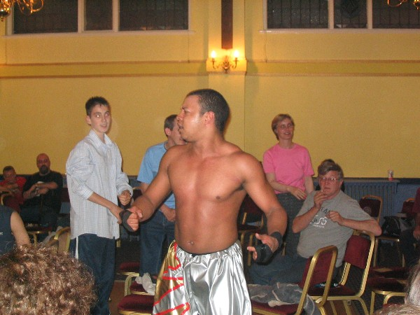 Jody Fleisch at FSW Future-Shock 5 on 2 July 2 2005 in Stockport Guild Hall, Stockport.